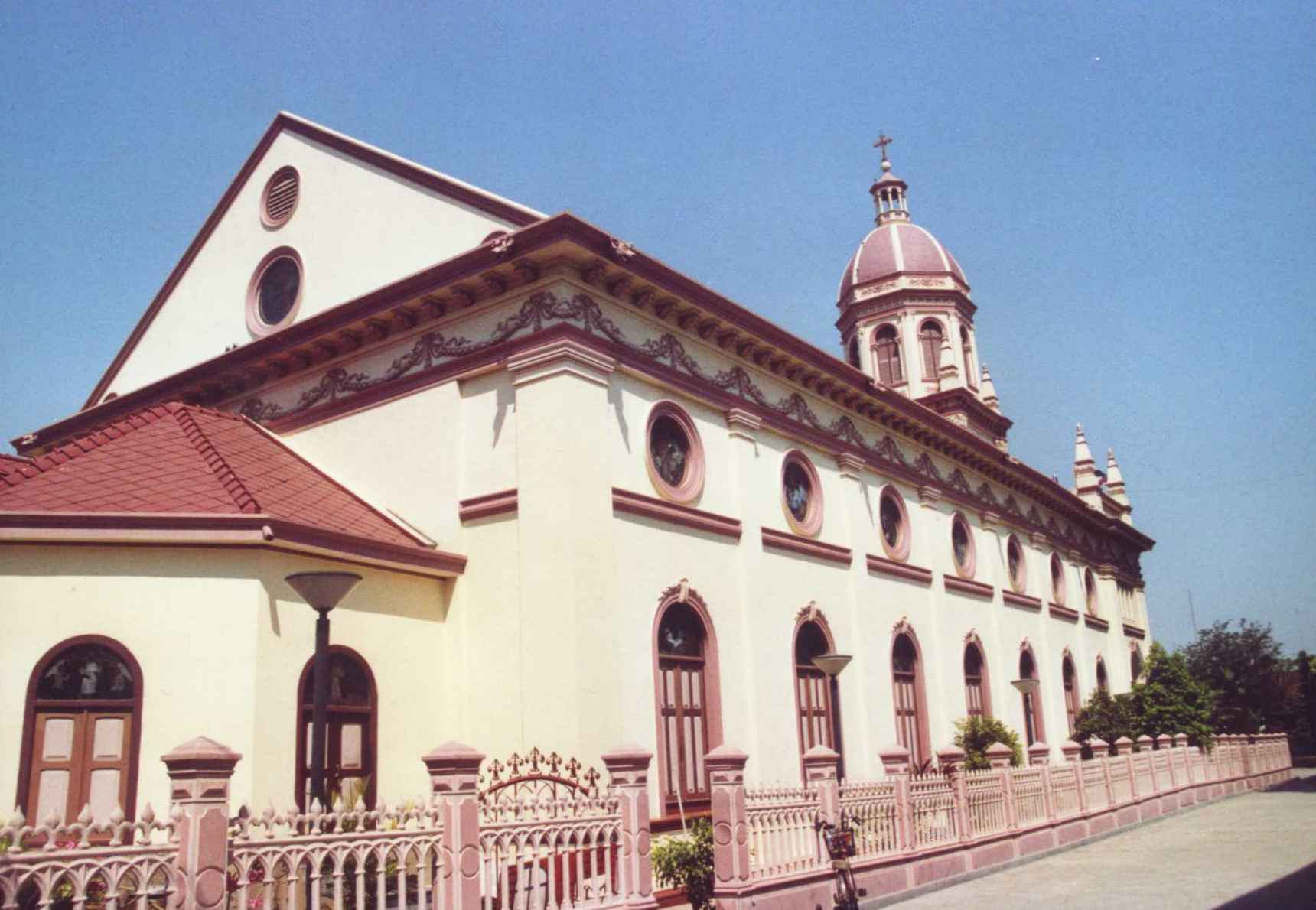 Santa Cruz church, Bangkok Photo taken by User:Ahoerstemeier in January 2006.